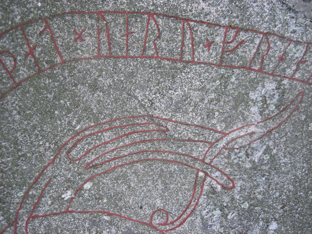 Dragonhead detail on runestone U 337 Camera: Canon Digital IXUS 50 License on Flickr (2010-12-30): CC-BY-SA-2.0 Flickr tags: sthlm2007, sweden, granby, rune, rune stone, vikings, U 337, dragonhead